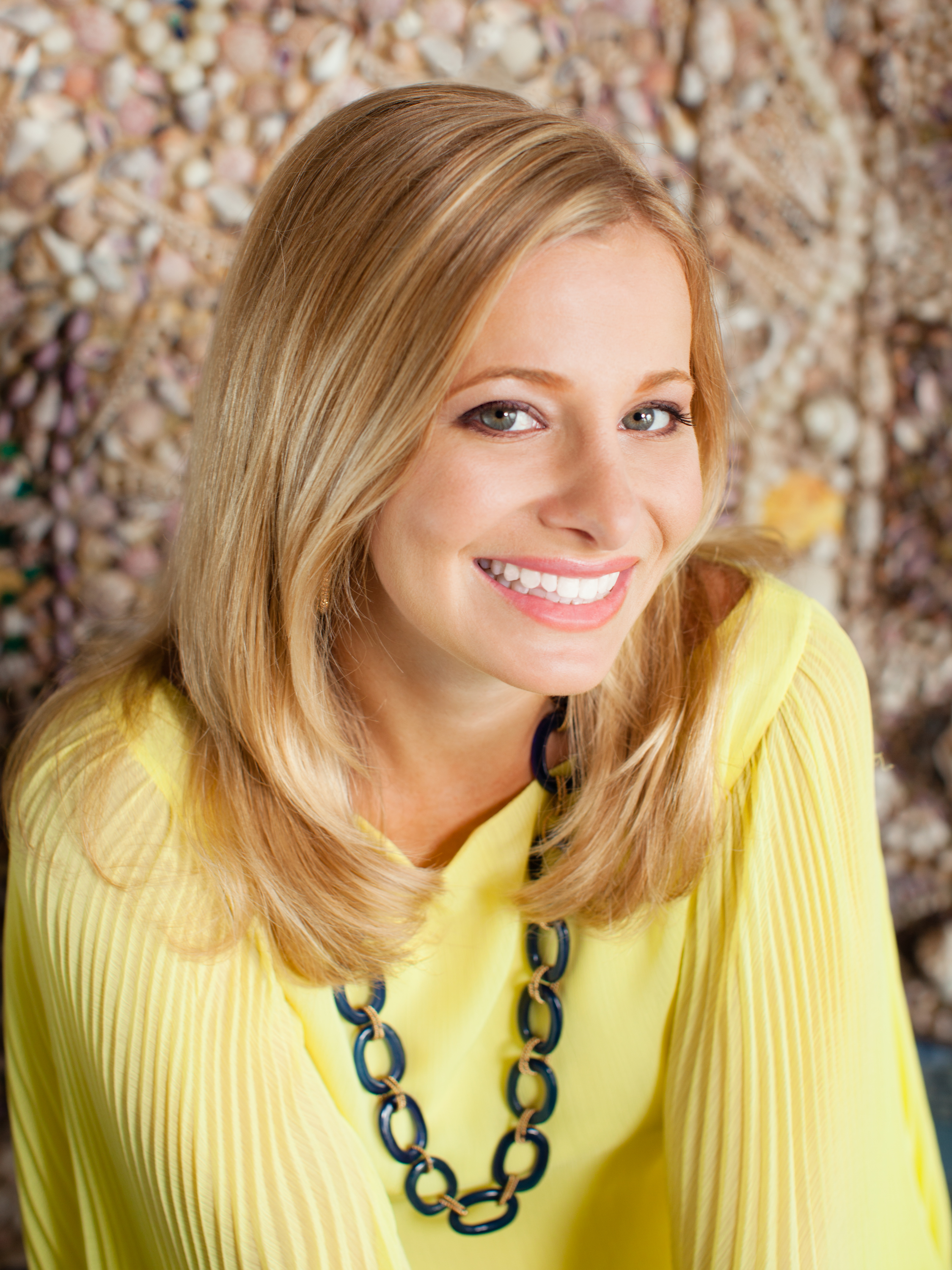 This is the profile photo for Lindsay Phillips in the infobox.